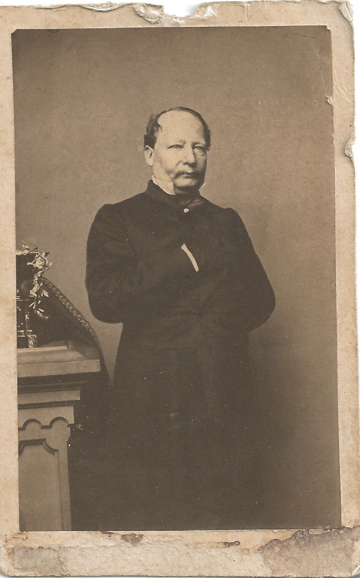 Portrait